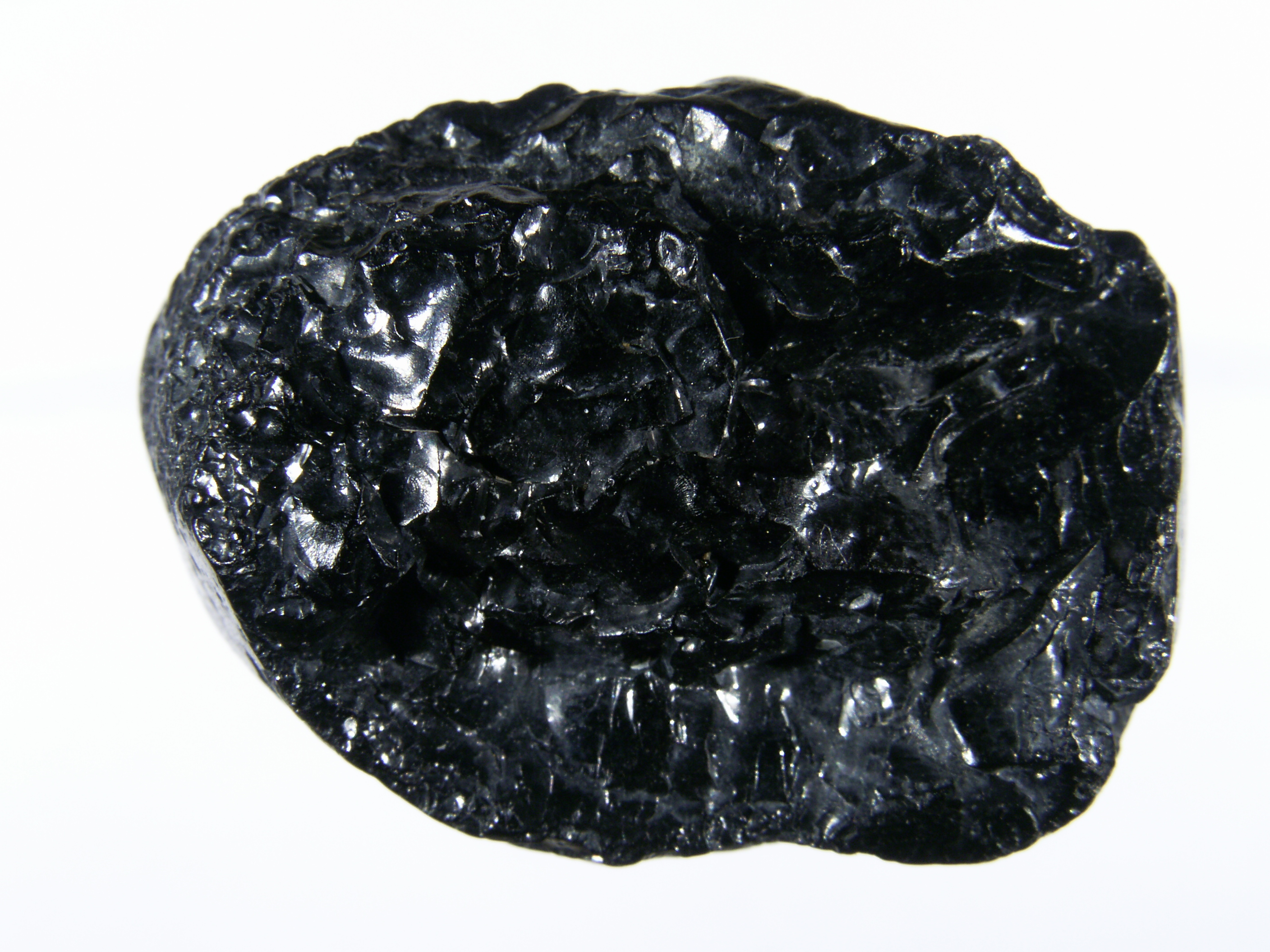 Amber from Bitterfeld, stantienite